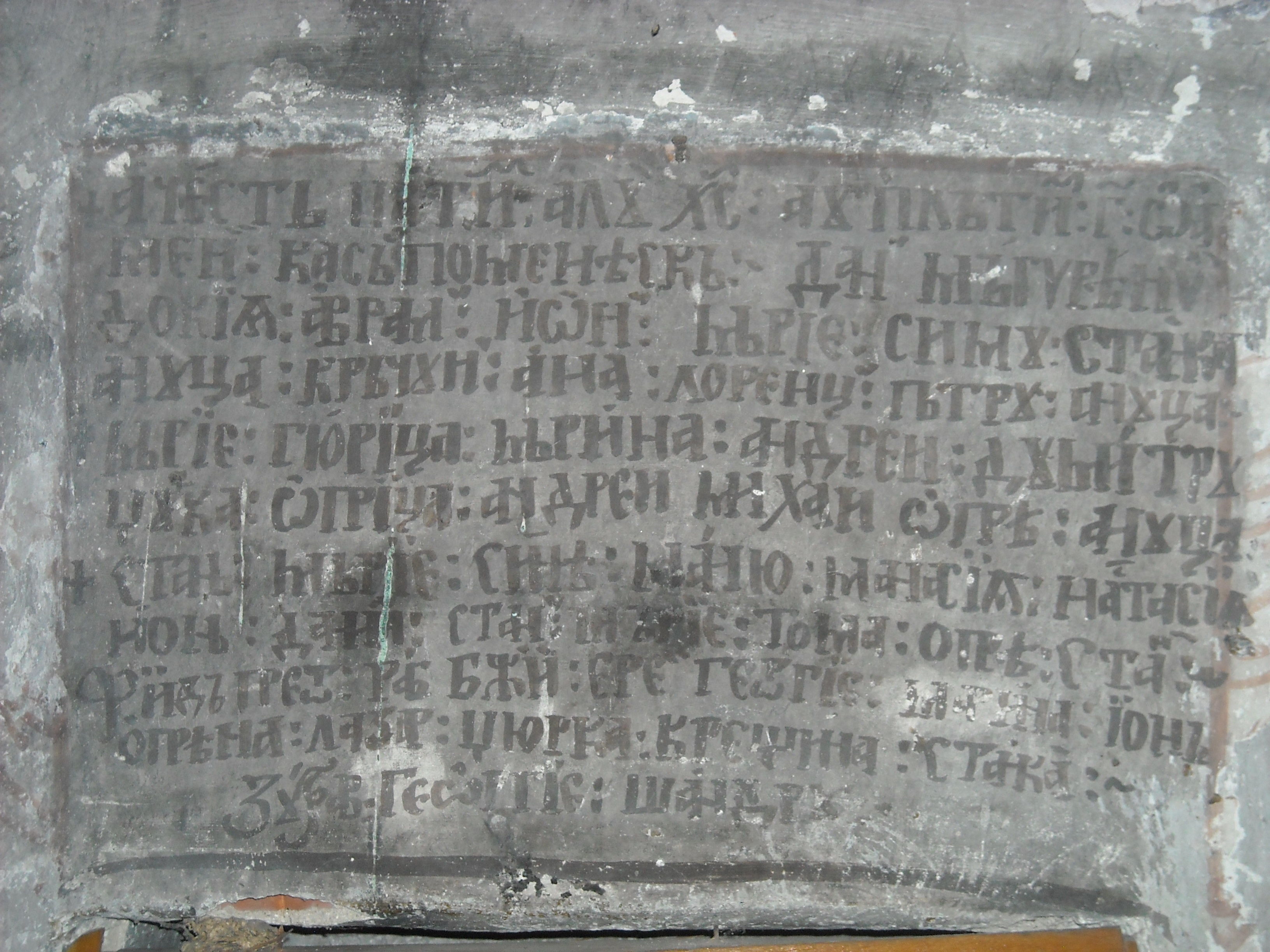 founding plaque of the Streisângeorgiu Orthodox Church